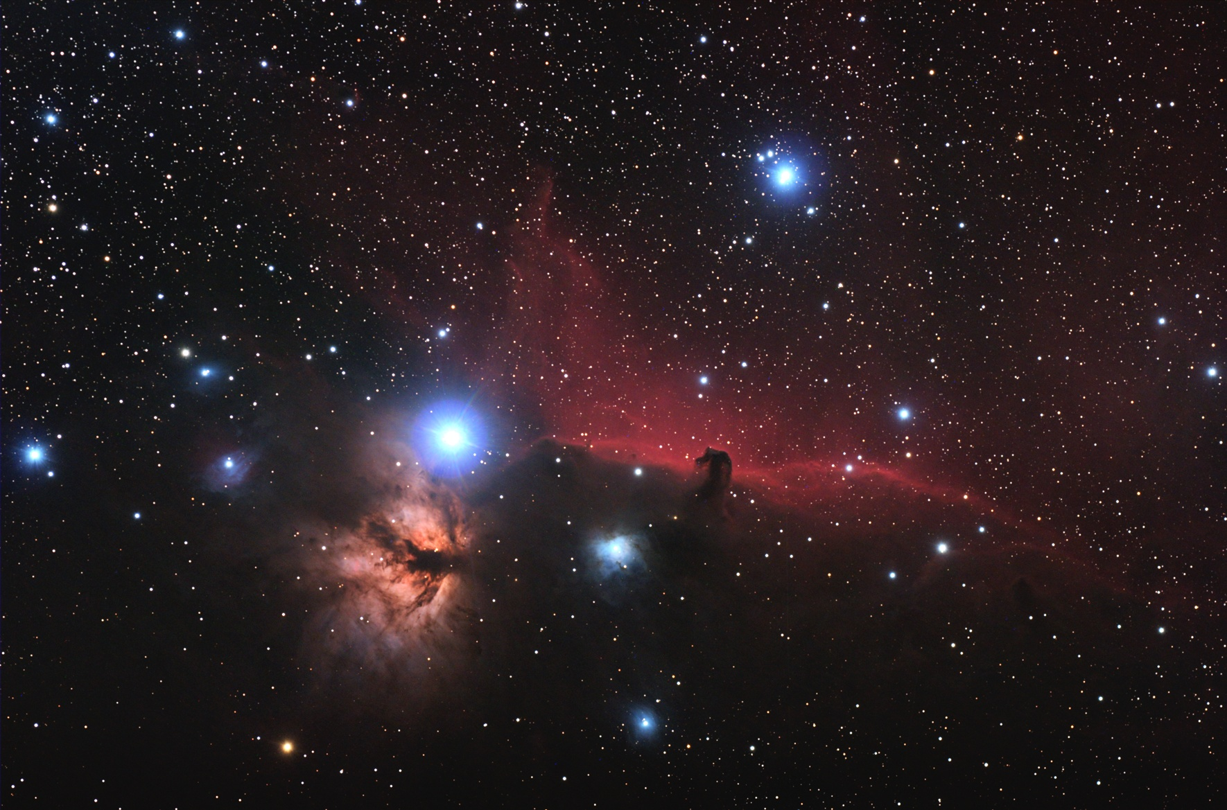 The Flame Nebula, designated as NGC 2024 and Sh2-277 / Horsehead Nebula